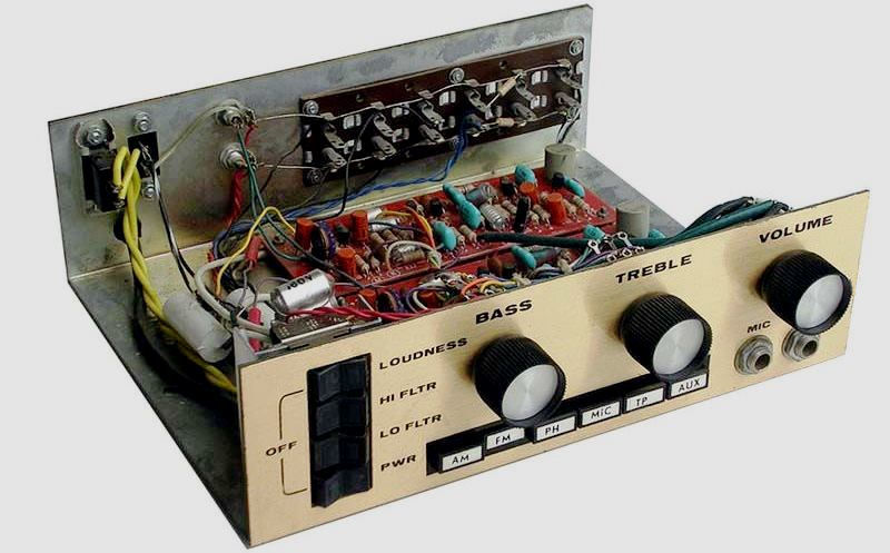 Southwest Technical Products FET Pre Amp first published as a cover story in Popular Electronics in May, 1969. Image is edited version of File:SWTPC PreAmp.jpg. Edited to remove descriptive text and touch-up minor cosmetic defects.